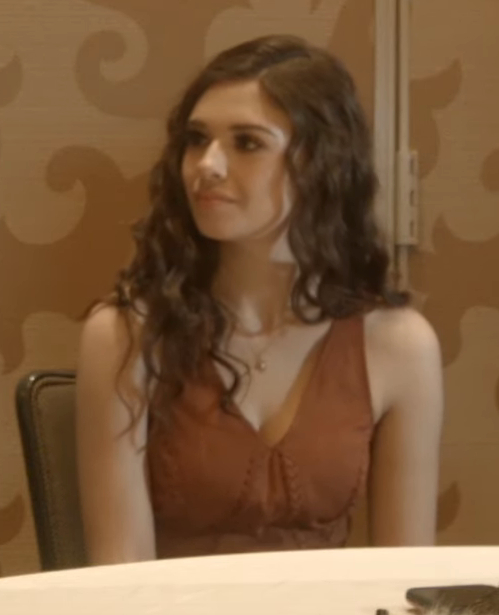 Actress Nicole Maines during an interview in 2019